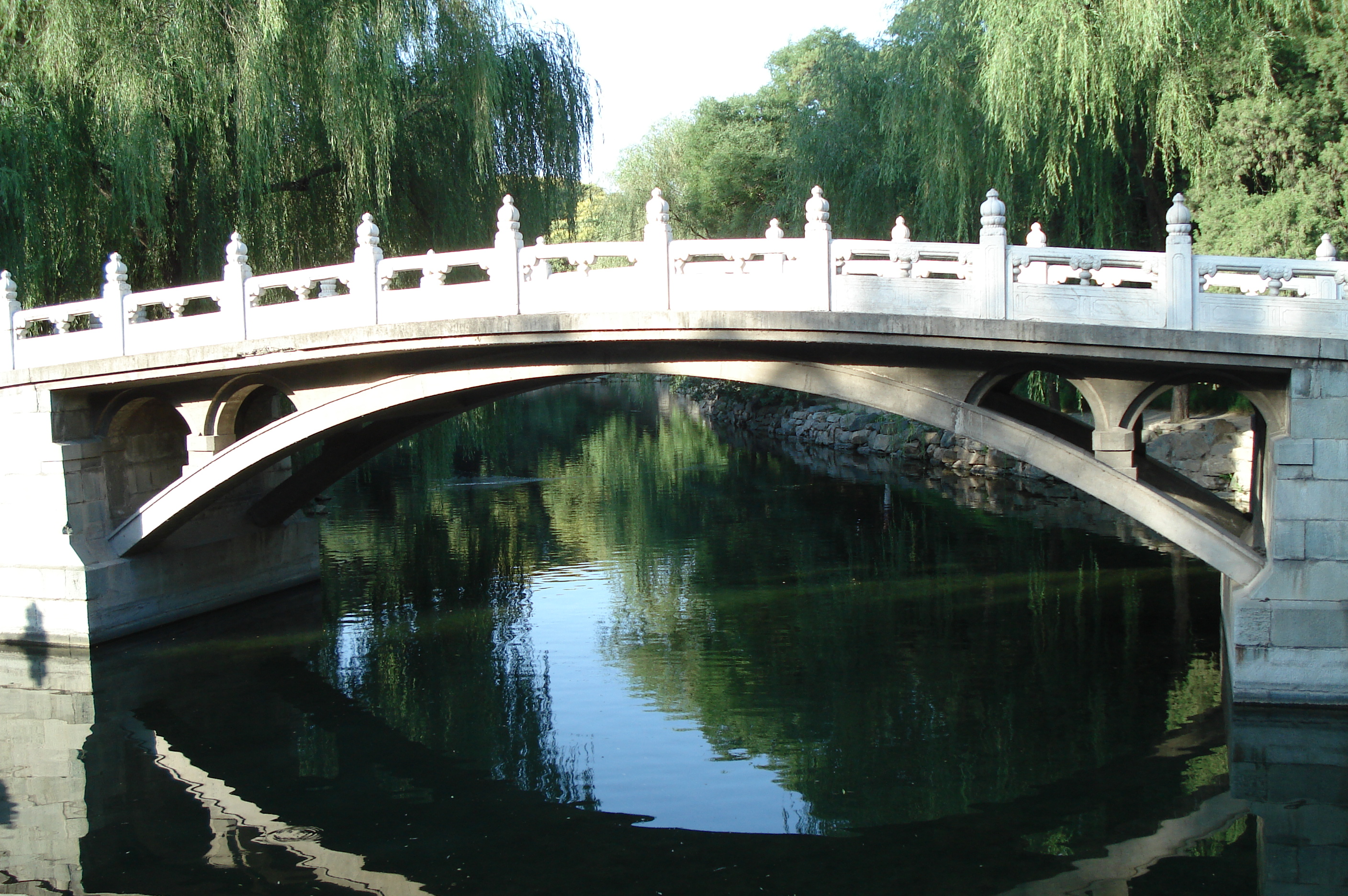 Arch bridge in Summer Palace